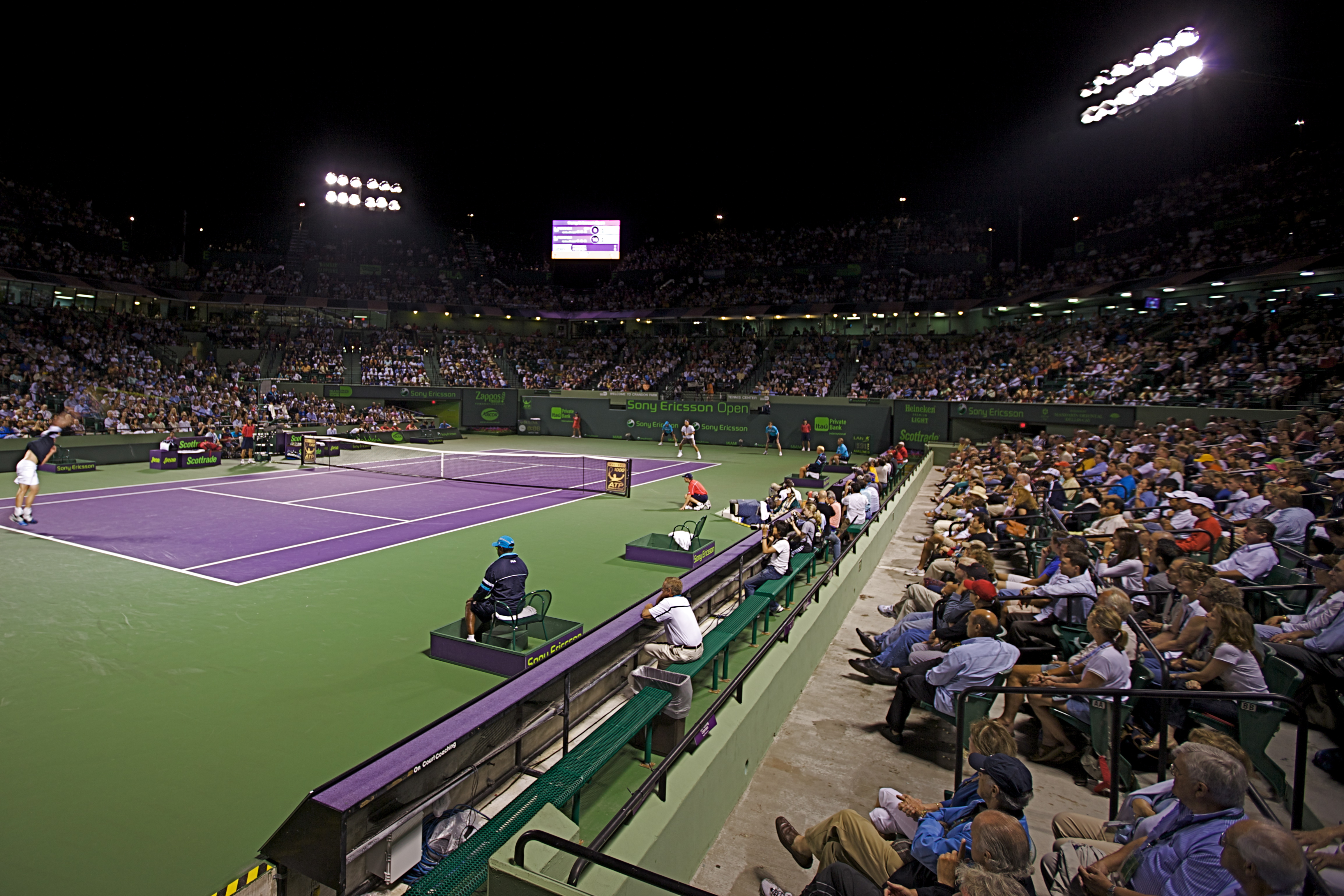 Sony Ericsson Open quarterfinal | Key Biscayne, Florida | Apri 1, 2009 Published